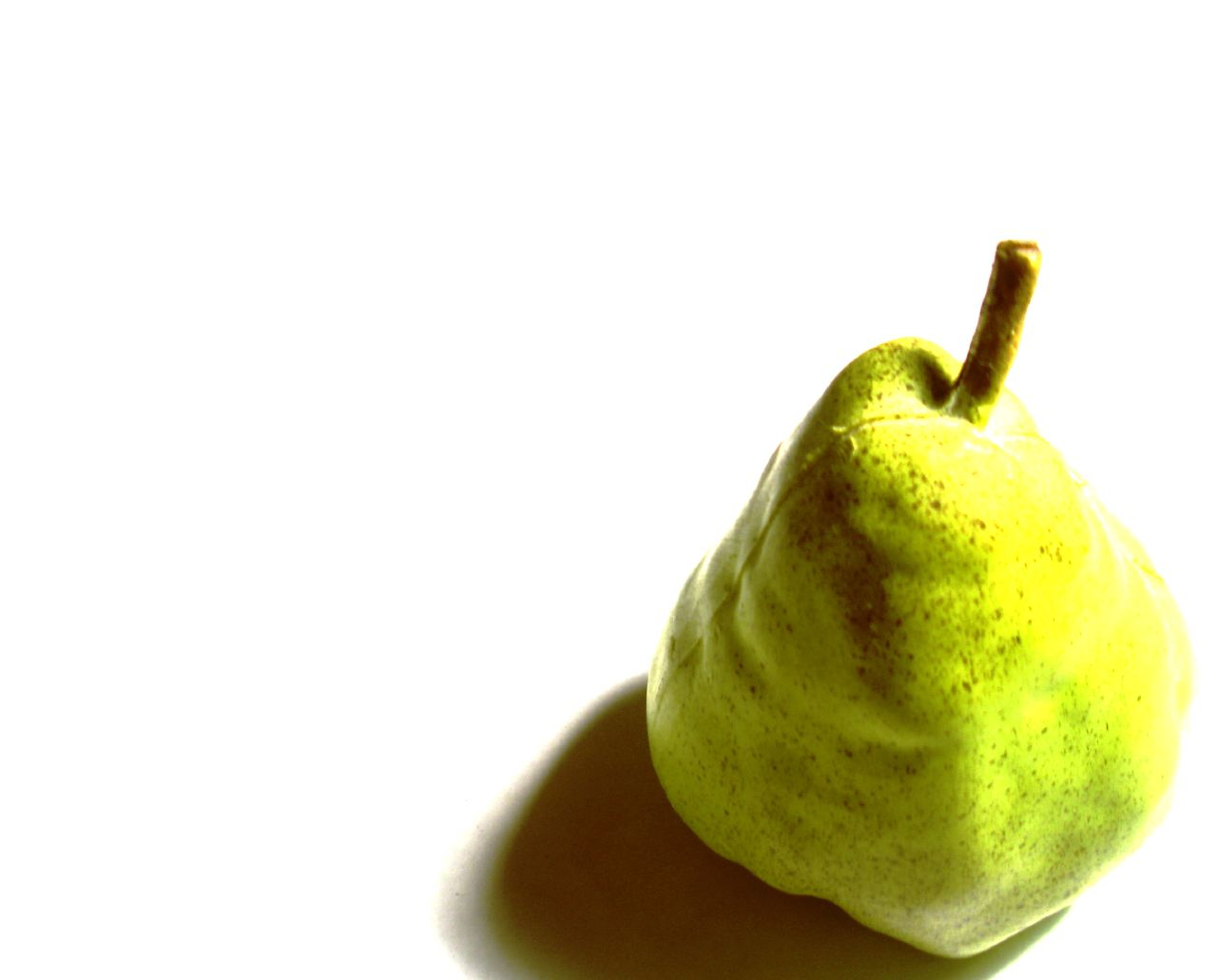 One a day food item # 3 (plastic counts)